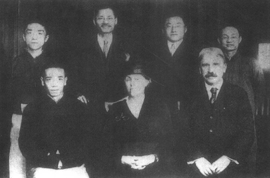 Hu Shih, John Dewey and others in Shanghai, 1919.front row (left to right): Shi Liangcai, John Dewey's wife , John Deweyback row (left to right): Hu Shih, Jiang Menglin, Tao Xingzhi, Zhang Zuoping